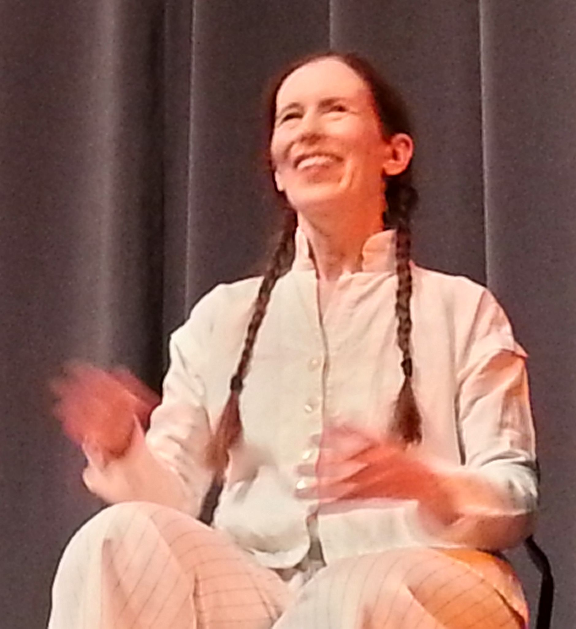 Meredith Monk at Krannert Cernter for the Performing Arts Urbana, Illinois, USA.